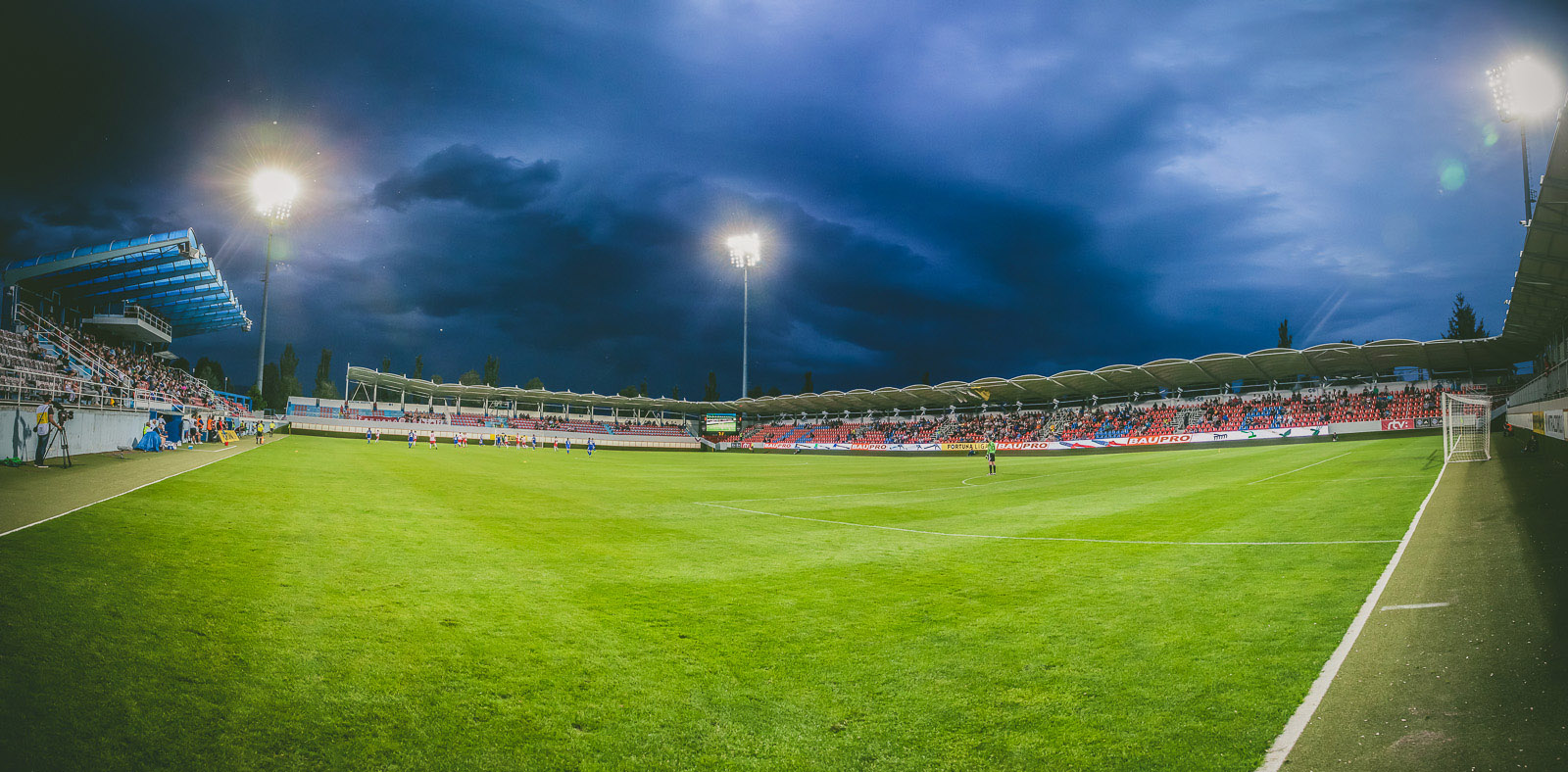 stadium of FC ViOn Zlate Moravce